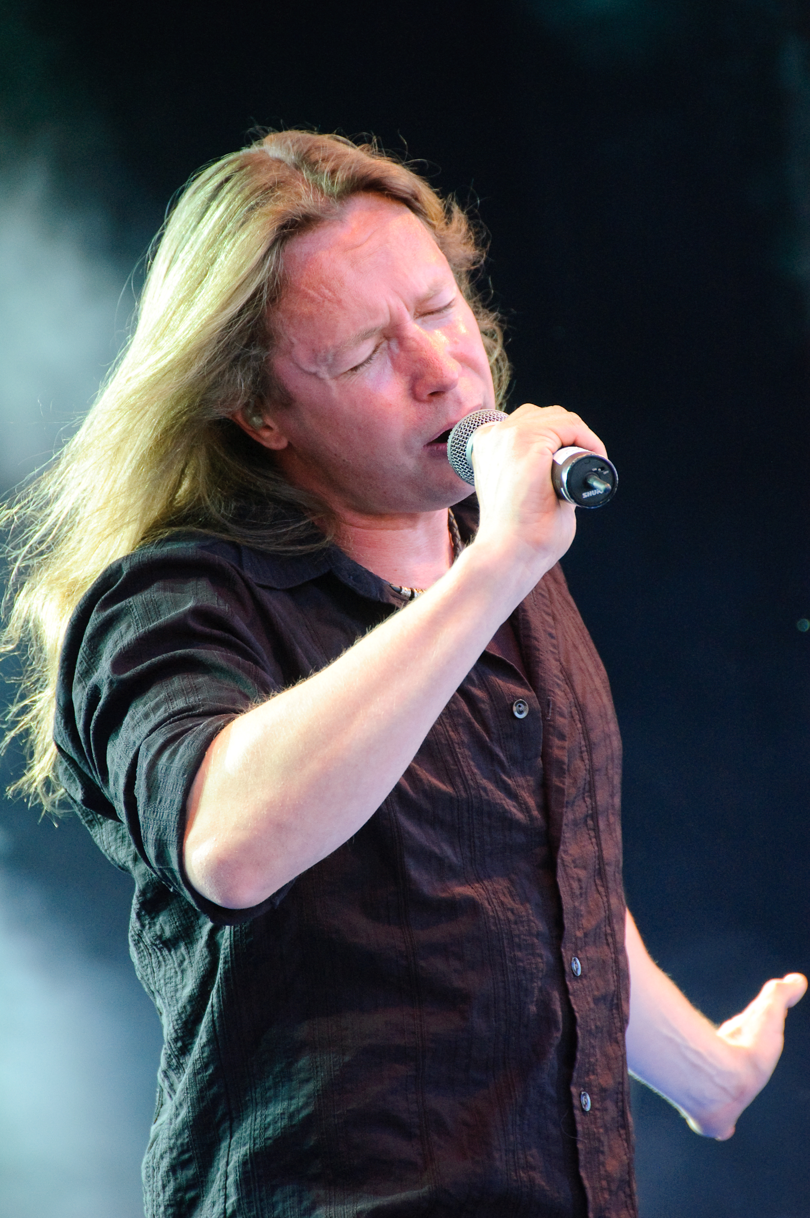 Vocalist Timo Kotipelto of Stratovarius performing at the 2009 Ilosaarirock festival in Joensuu, Finland.